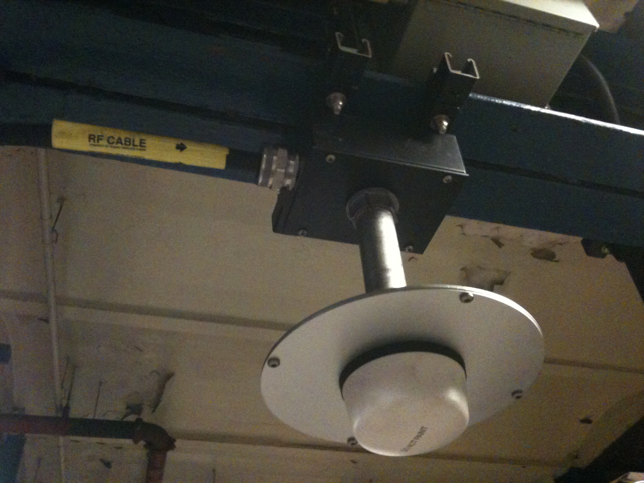 An antenna of Transit Wireless for its Wi-Fi and mobile phone services at the ceiling of a New York City subway station.